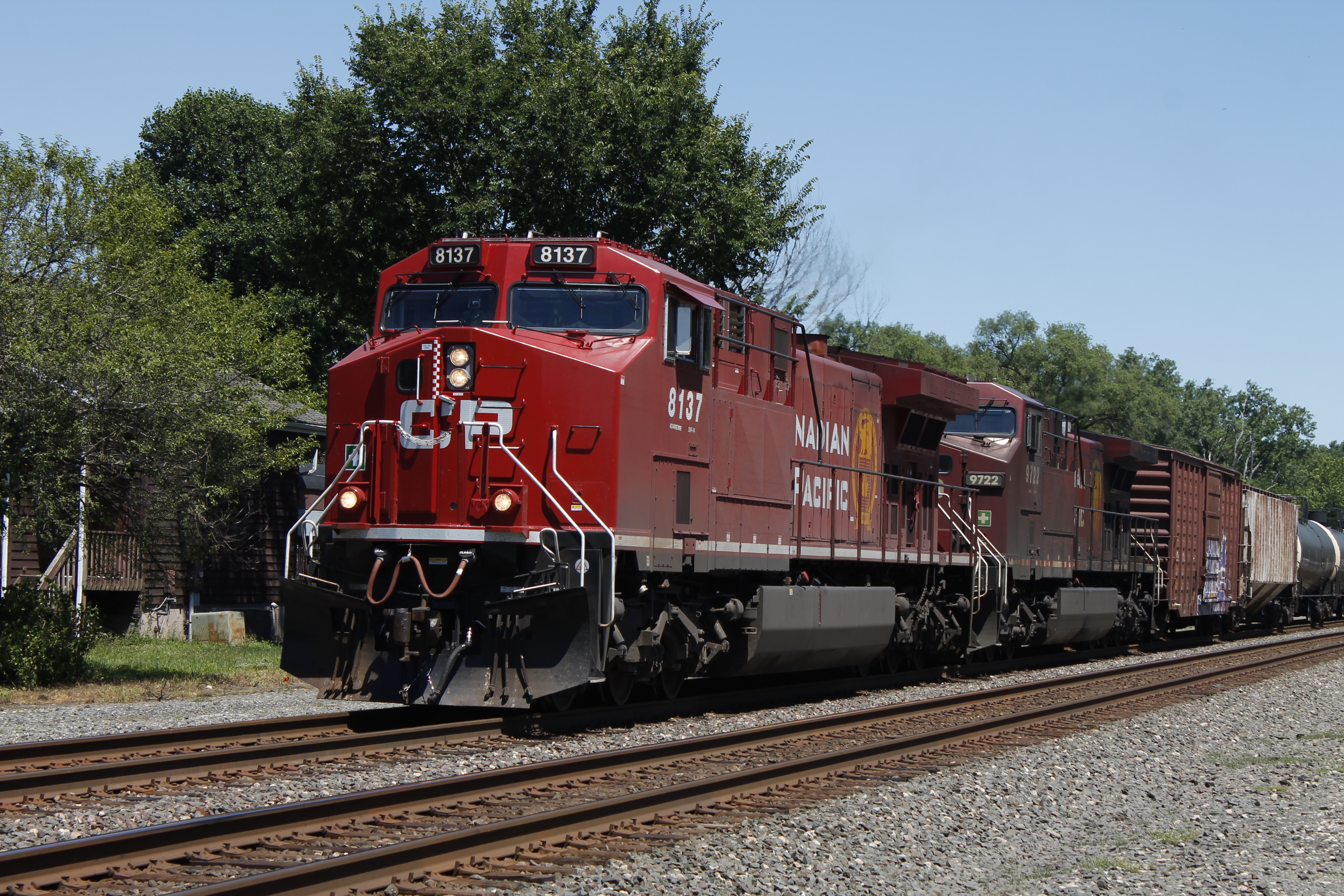 CP 8137 at Chesterton, behind it lies a well-worn GE engine, which is probably what it will look like in the future